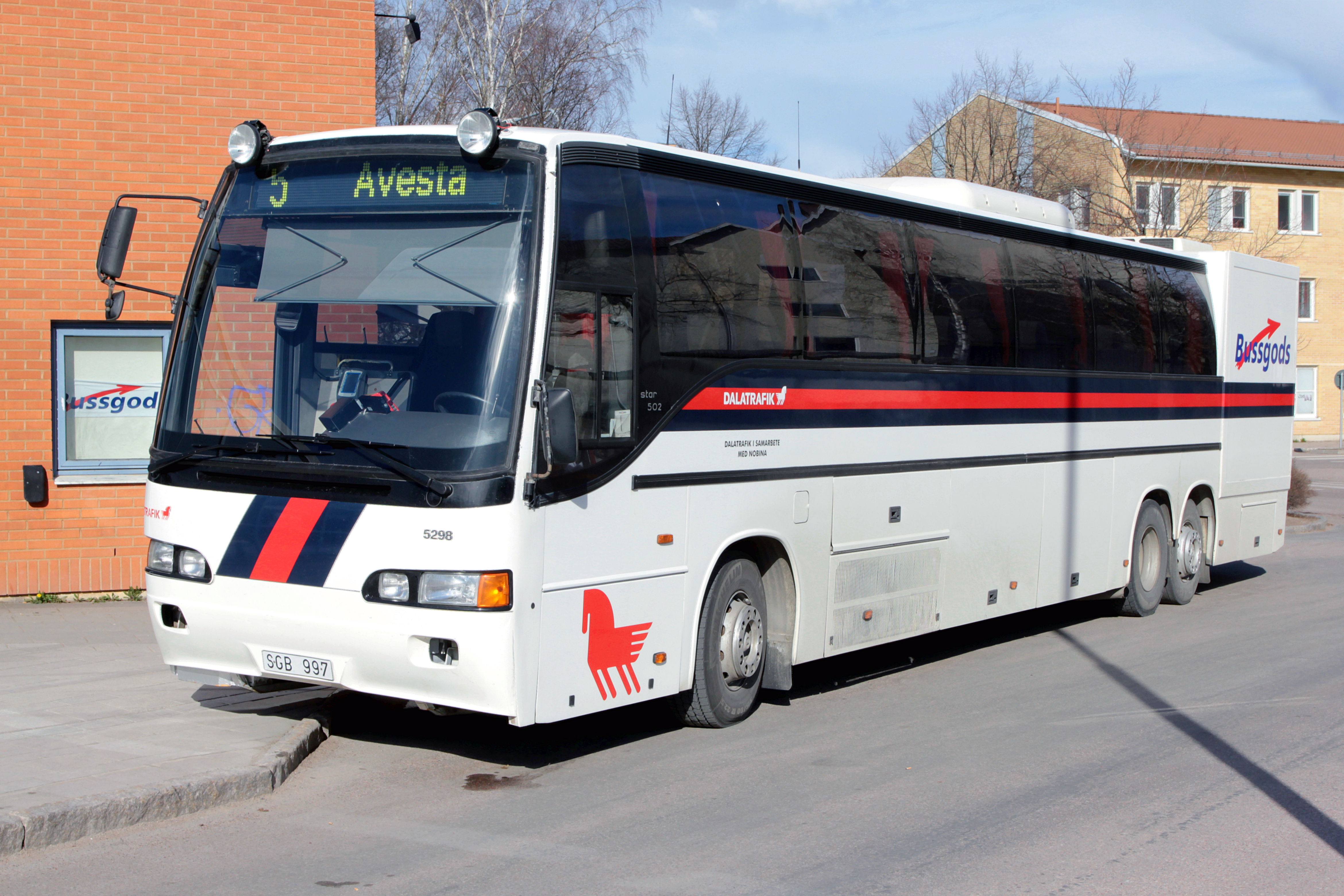 Carrus Vega/Volvo B10M in traffic for Dalatrafik and freight company Bussgods, operated by Nobina. Avesta bus station, Sweden.